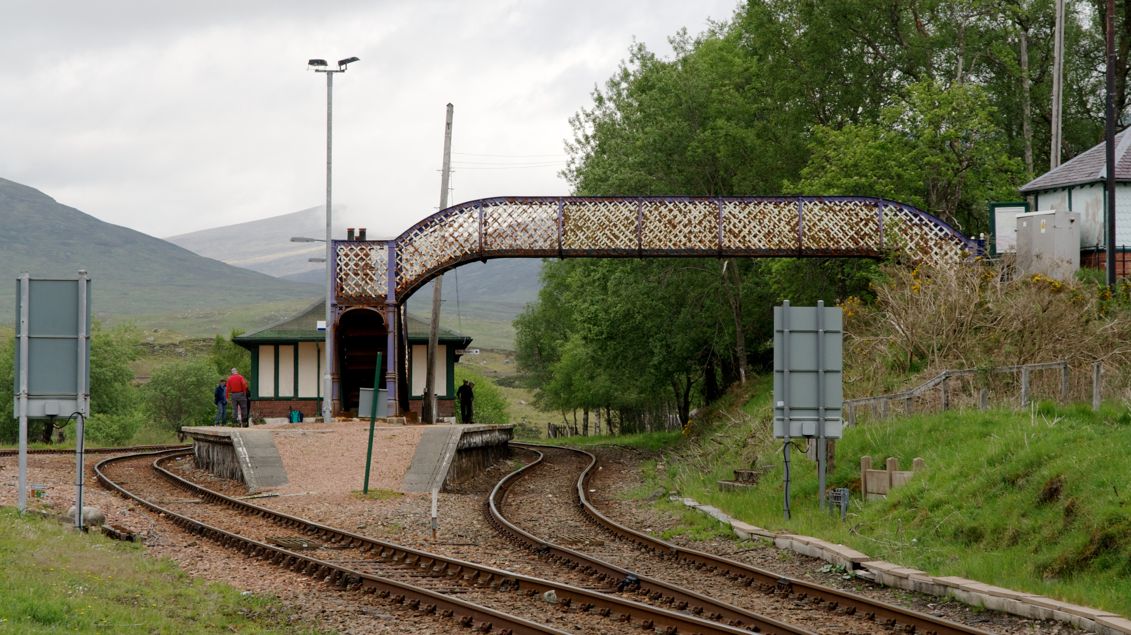 Rannoch Train Station